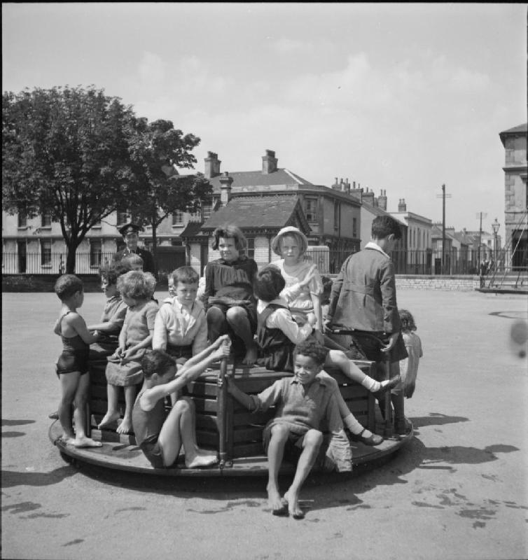 Muslim Community- Everyday Life in Butetown, Cardiff, Wales, UK, 1943 Children play on the roundabout in Butetown's recreational square in the sunshine. According to the original caption, the square also includes chutes, swings and a large paddling pool.